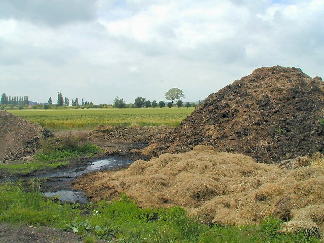 Cereals and Dung. I prefer milk on mine. Found in the corner of a field near Welldale Farm